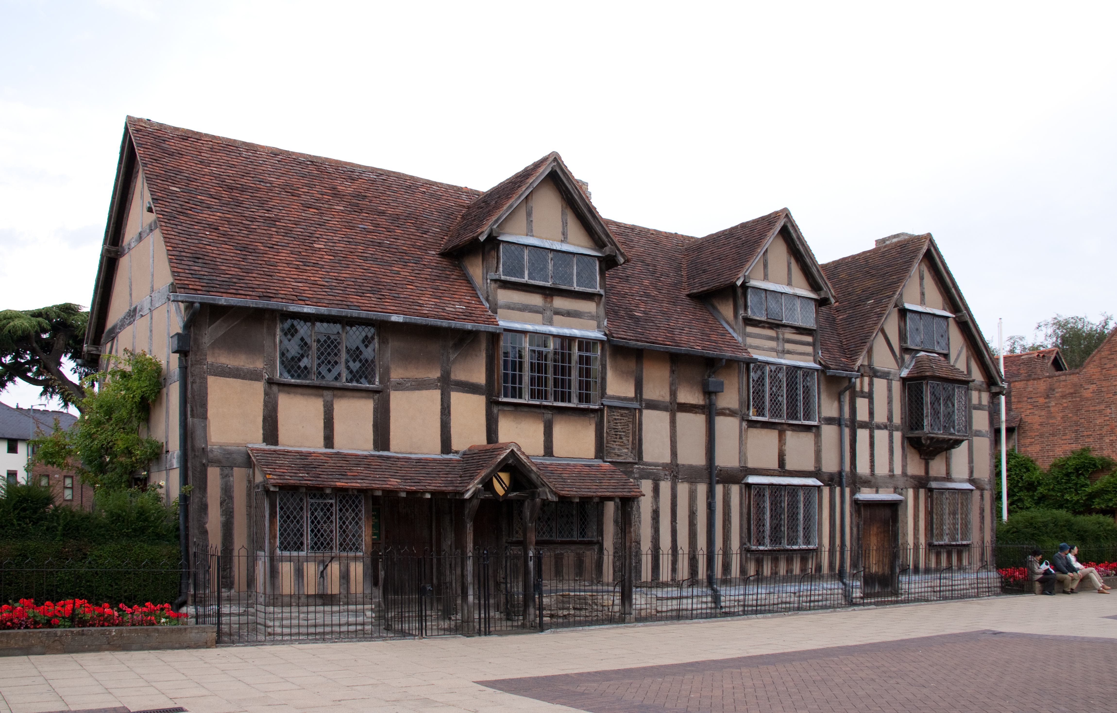 Shakespeare's Birthplace